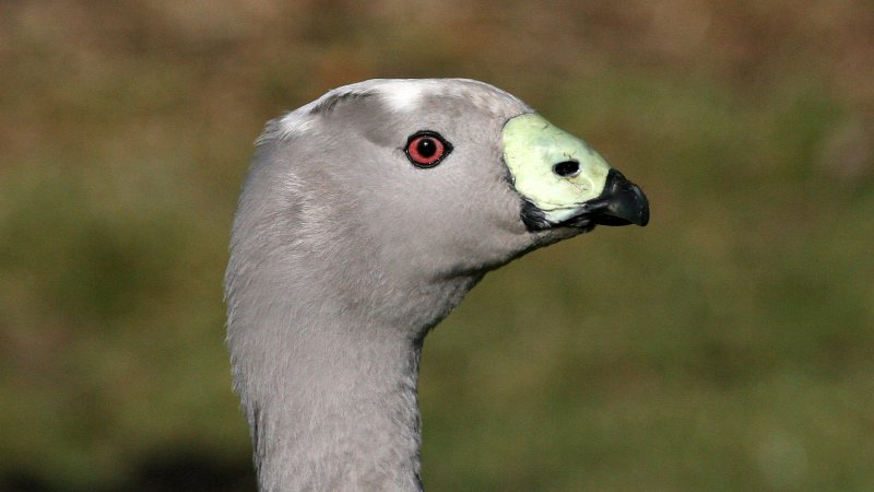 Cape Barren Goose (Cereopsis novaehollandiae)